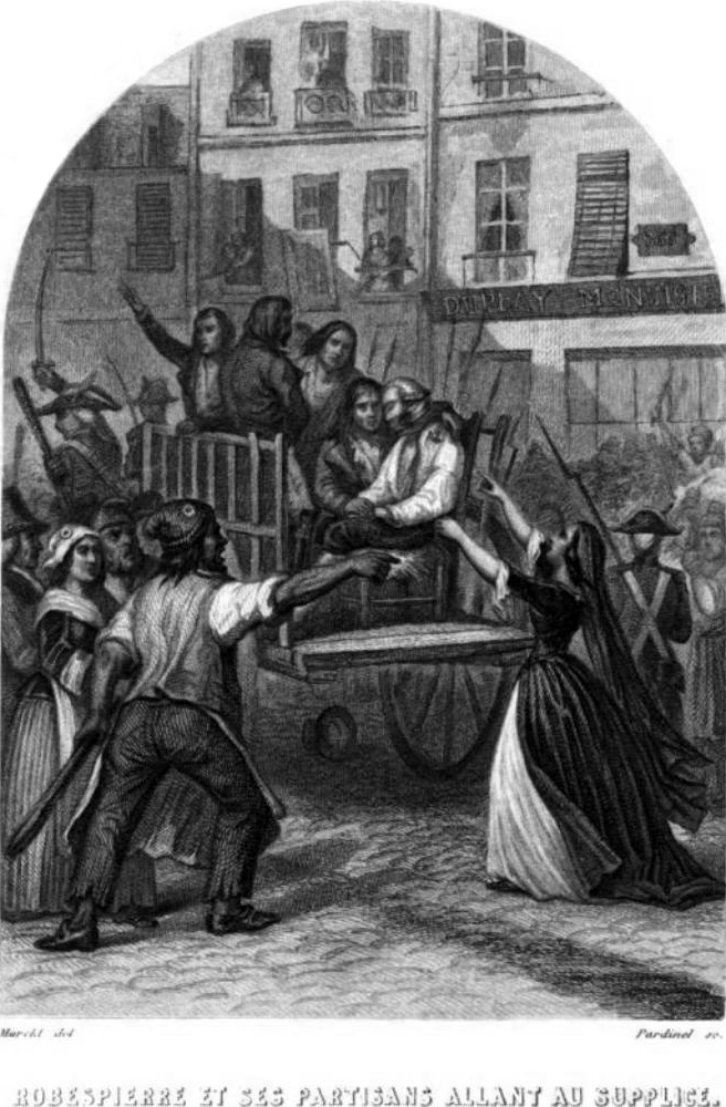 Maximilien Robespierre and his Followers on their Way to the Scaffold on 28 July 1794